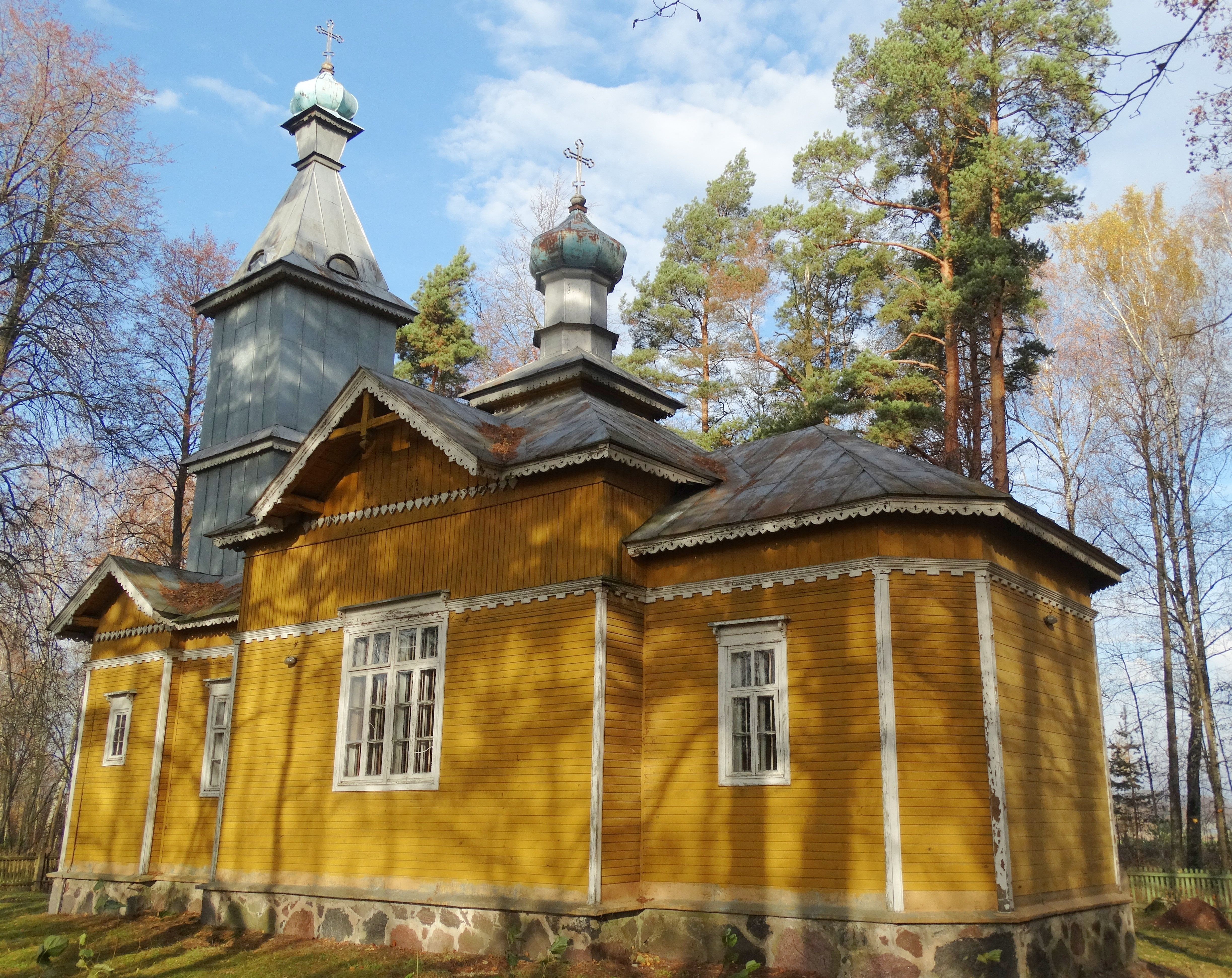 Orthodox church, Gegabrasta, Pasvalys district, Lithuania